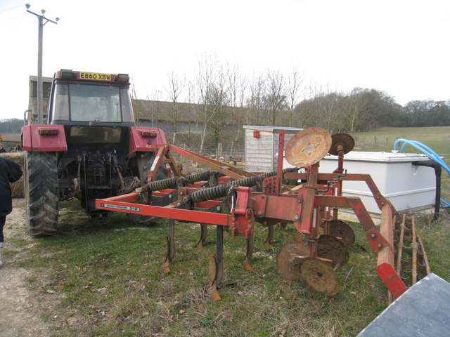 Case IH tractor and Massey Ferguson cultivator (grubber/chisel plough with disc harrow and roller), Rushall Farm near to Bradfield, West Berkshire, Great Britain.